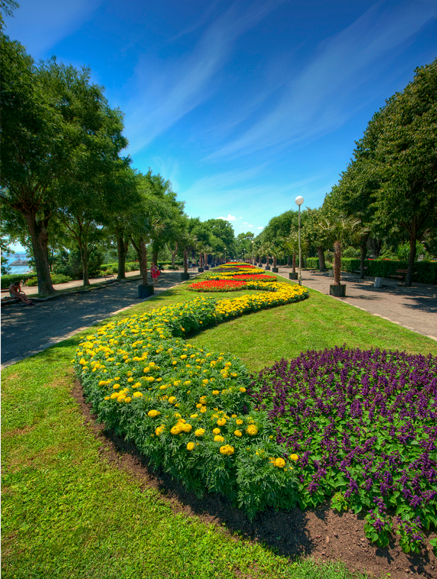 The Sea Garden in Burgas